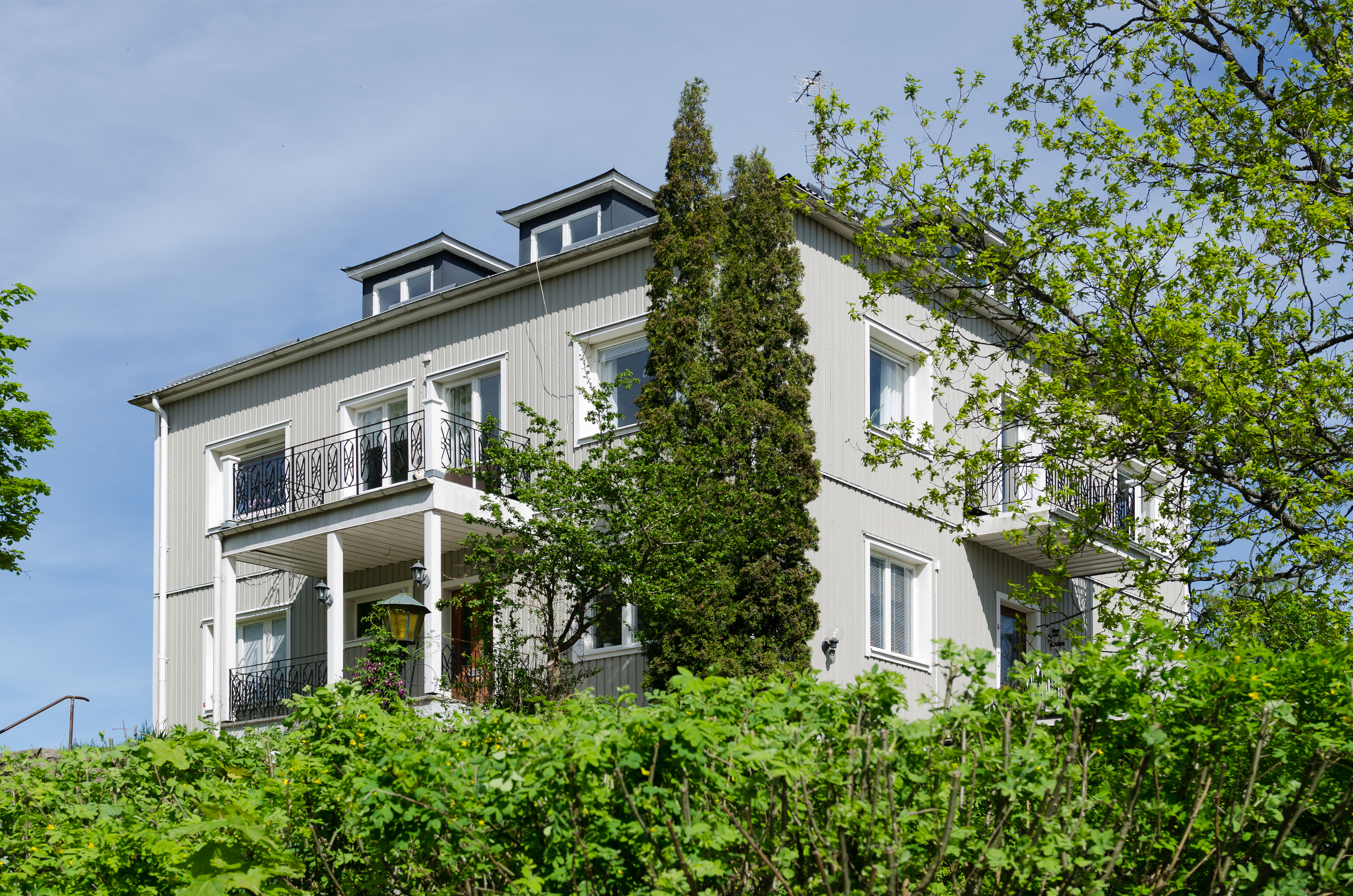 Villa in Örbyhus.